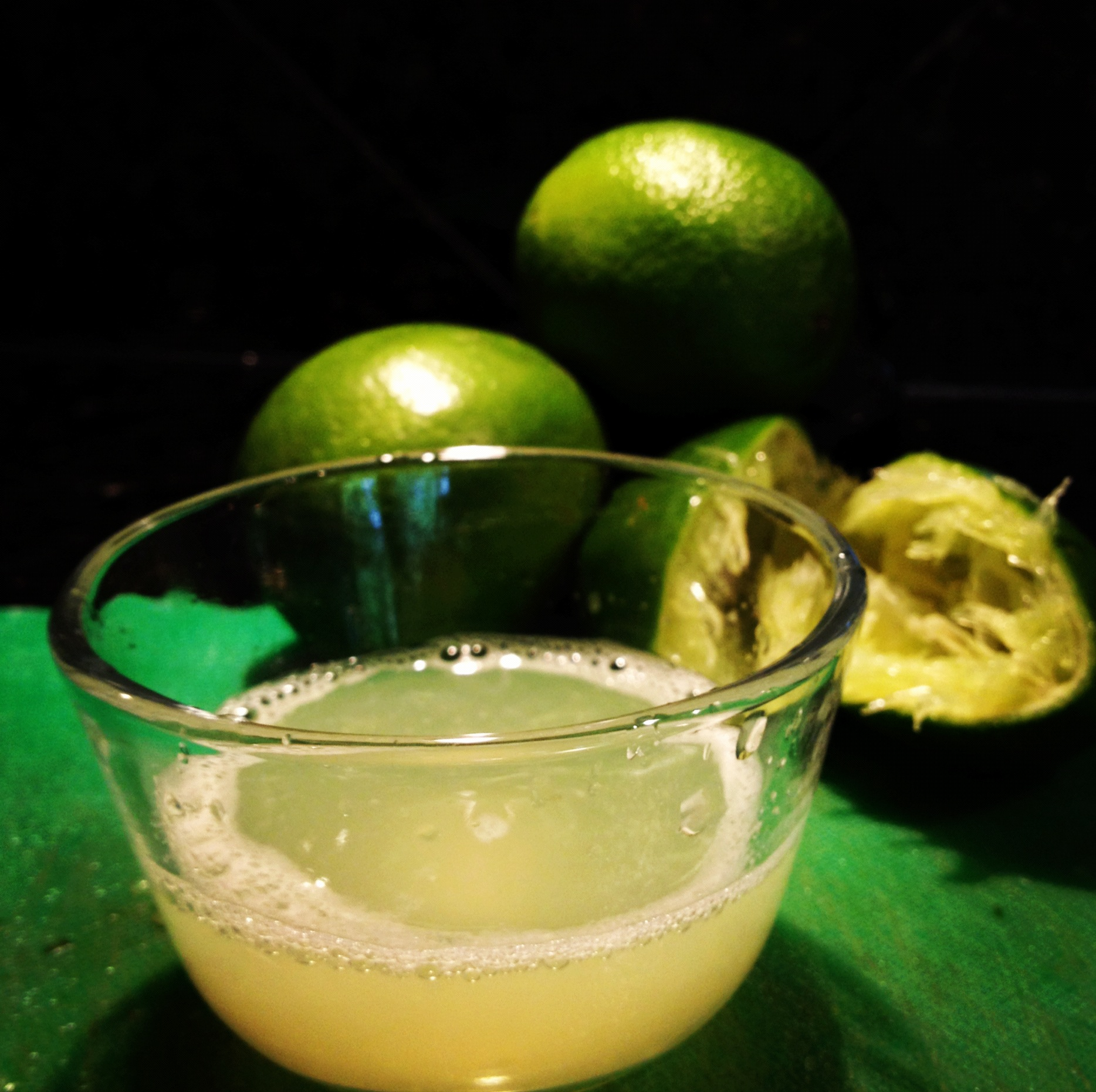 Lime juice